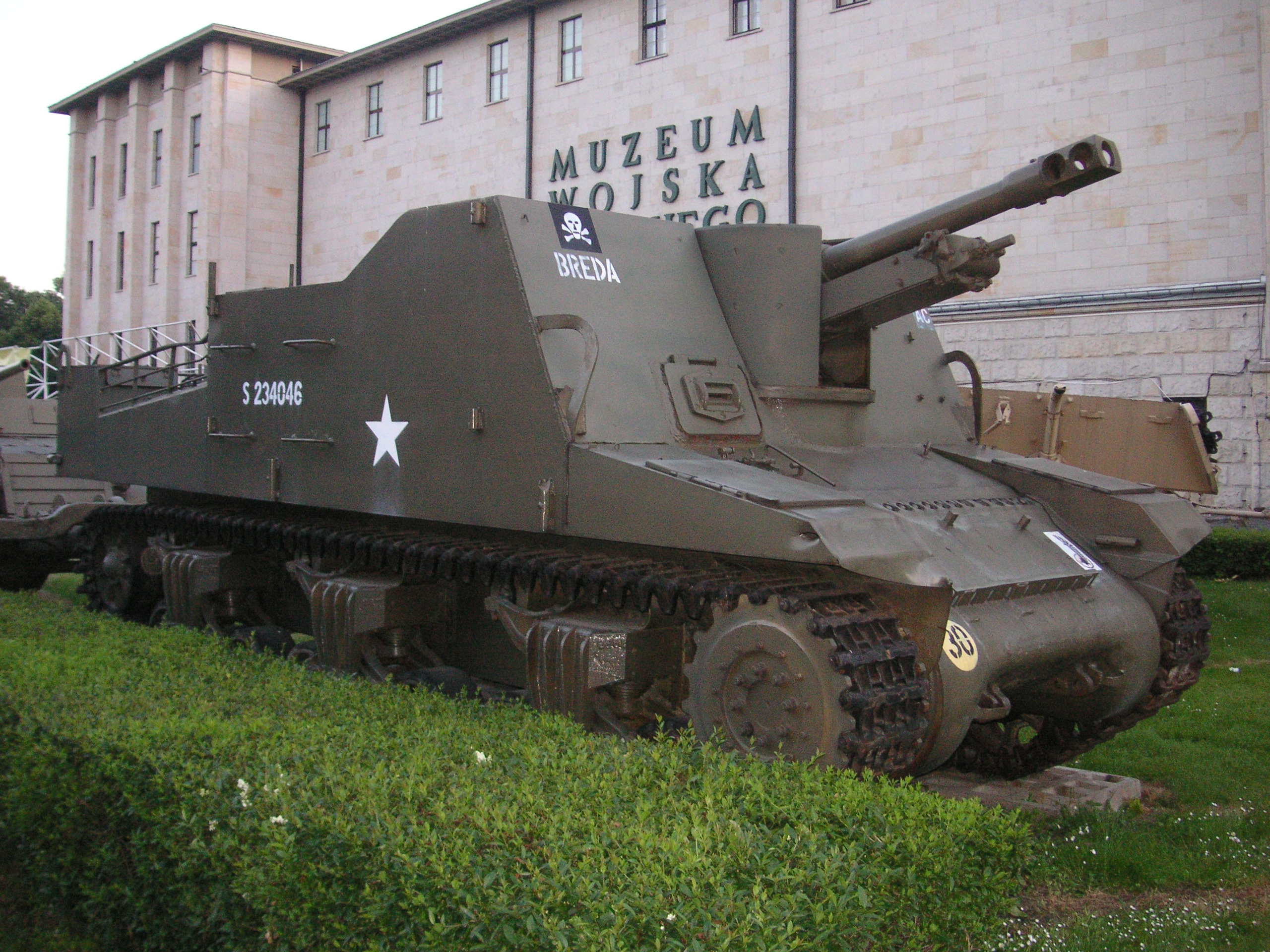 Sexton, on exhibition in the Polish Army museum in Warsaw. This particular piece of equipment was used during WWII by the Polish 1st Armoured Division.